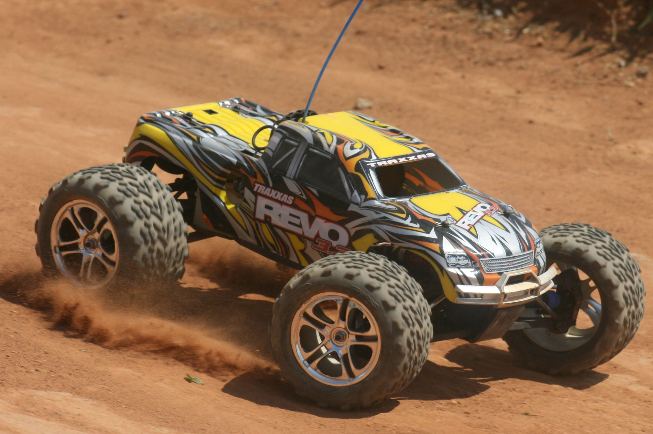 monster truck